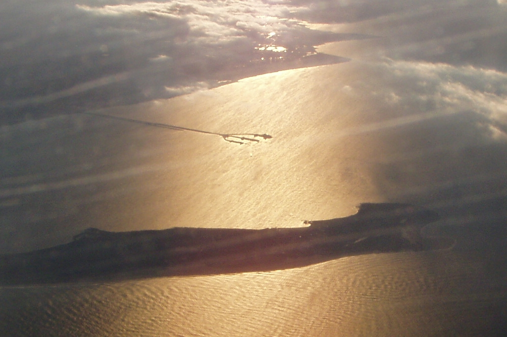 The US Navy Leonardo piers seen looking west from the air. Sandy Hook in foreground.